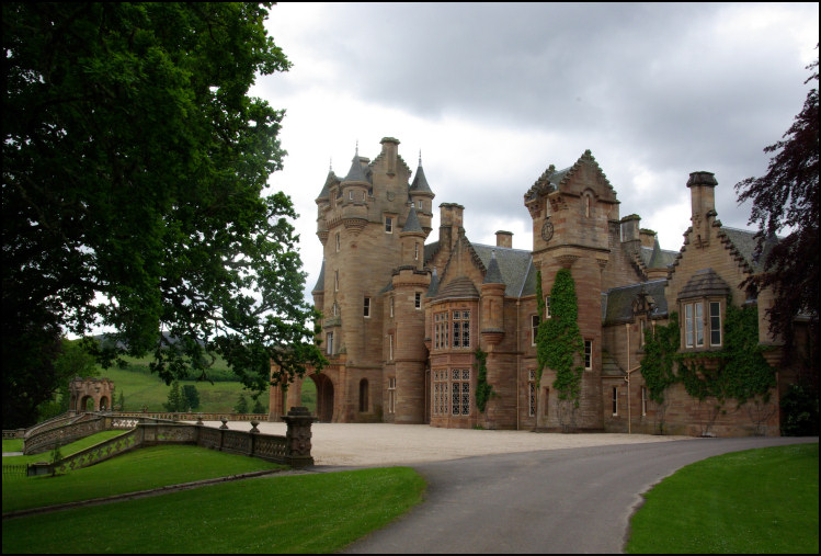 Scenery Photo